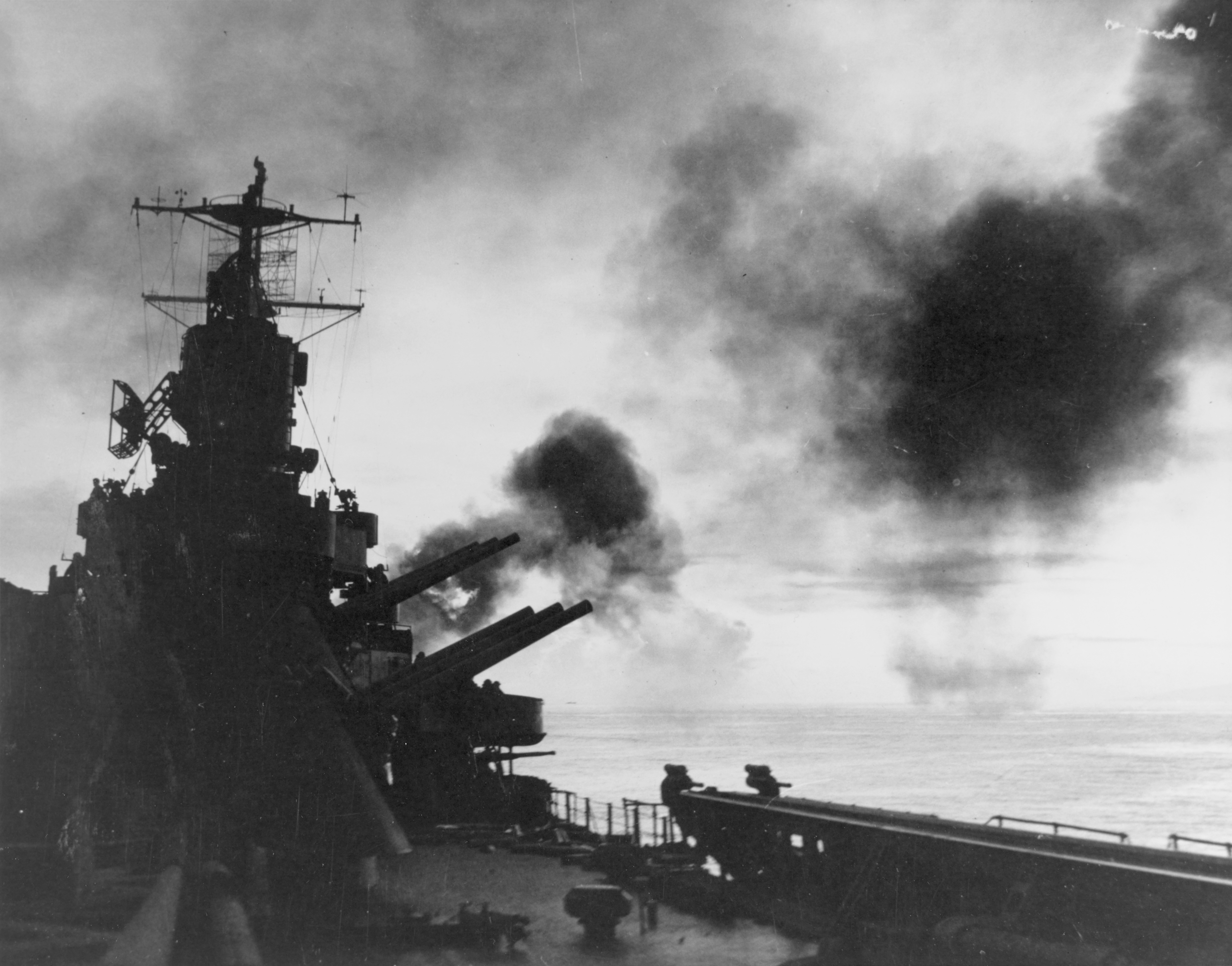 USS Phoenix (CL-46) firing her 6"/47 guns during the pre-invasion bombardment of Cape Gloucester, New Britain, circa 24-26 December 1943. Photographed from the ship's fantail, looking forward.